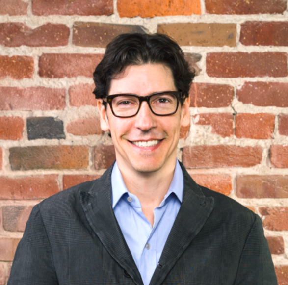 Jeff Fluhr photograph